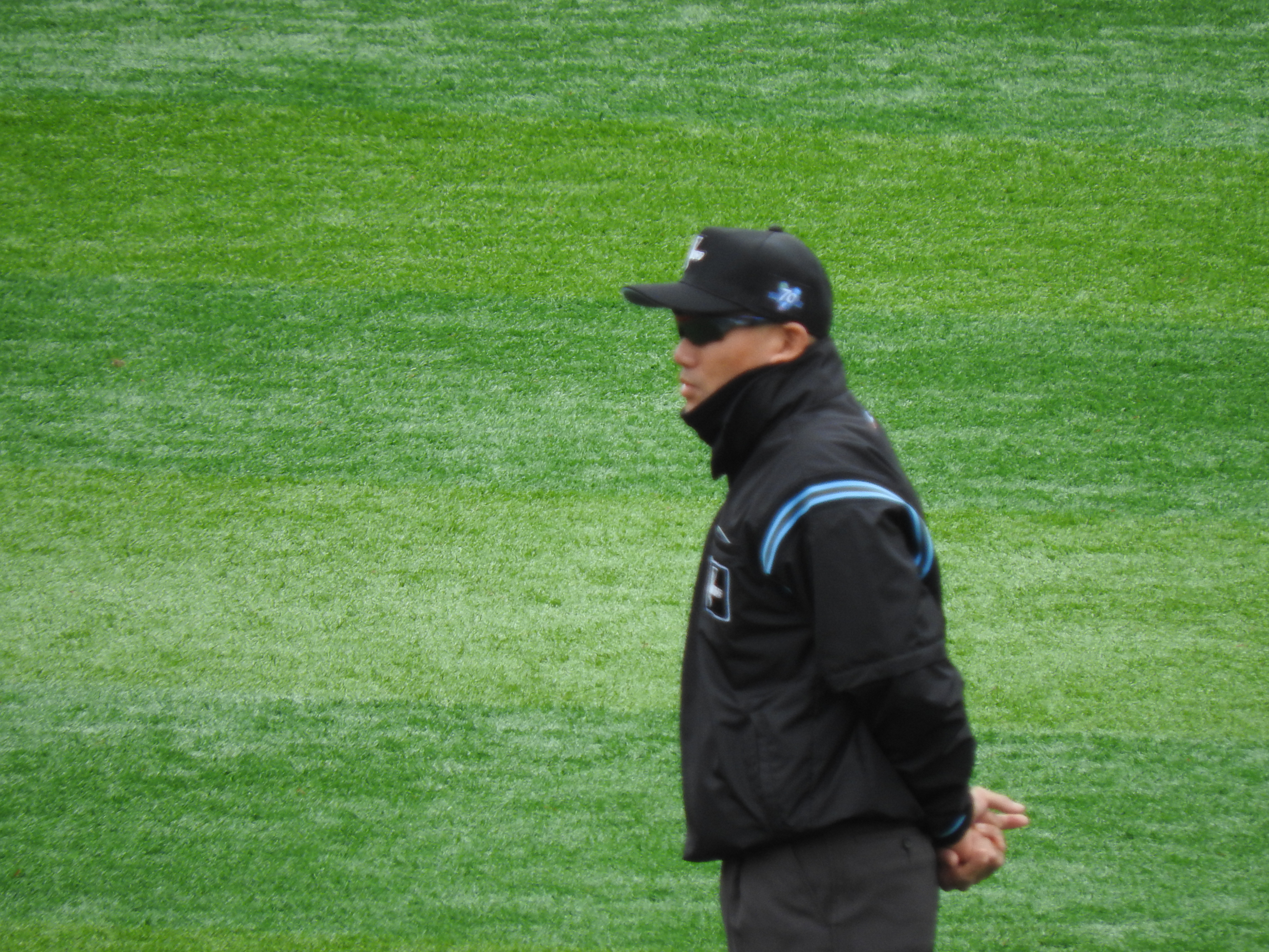 umpire of NPB.